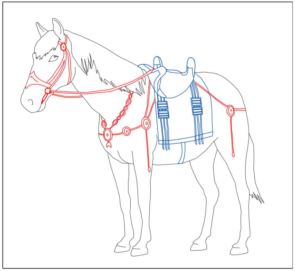 Illustration of a roman cavalry horse with harness and four horned saddle.